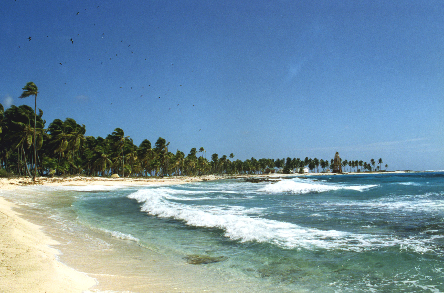 Half Moon Caye Natural Monument — in Belize. "The east side of the island was open to the Caribbean. A beautiful place."